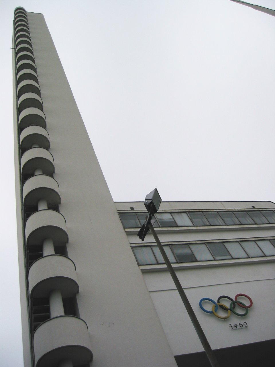 Tower of Helsinki Olympic Stadium